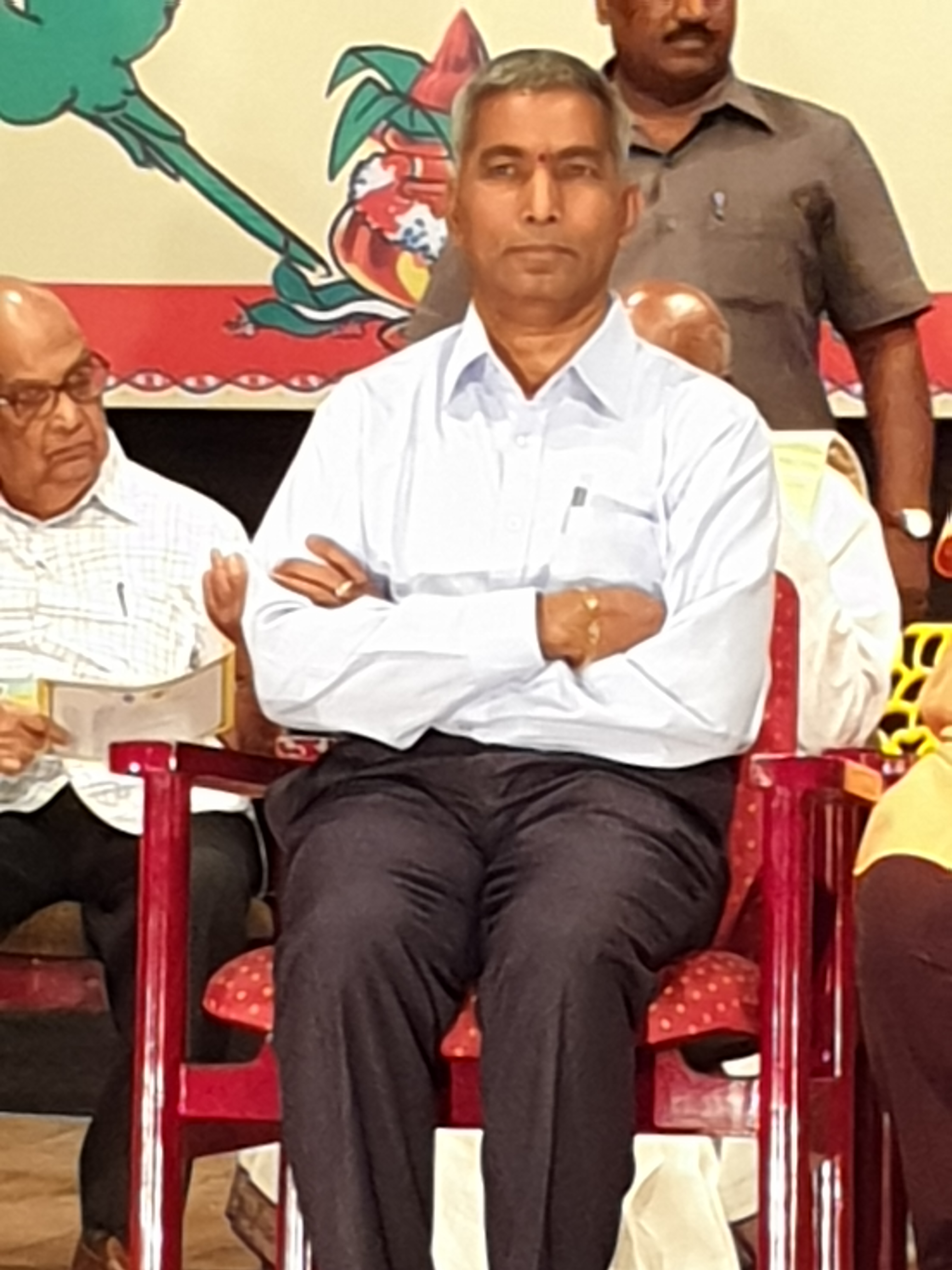 2019 Vikari Ugadi puraskars by Kinnera Art and presented by Konijeti Rosaiah